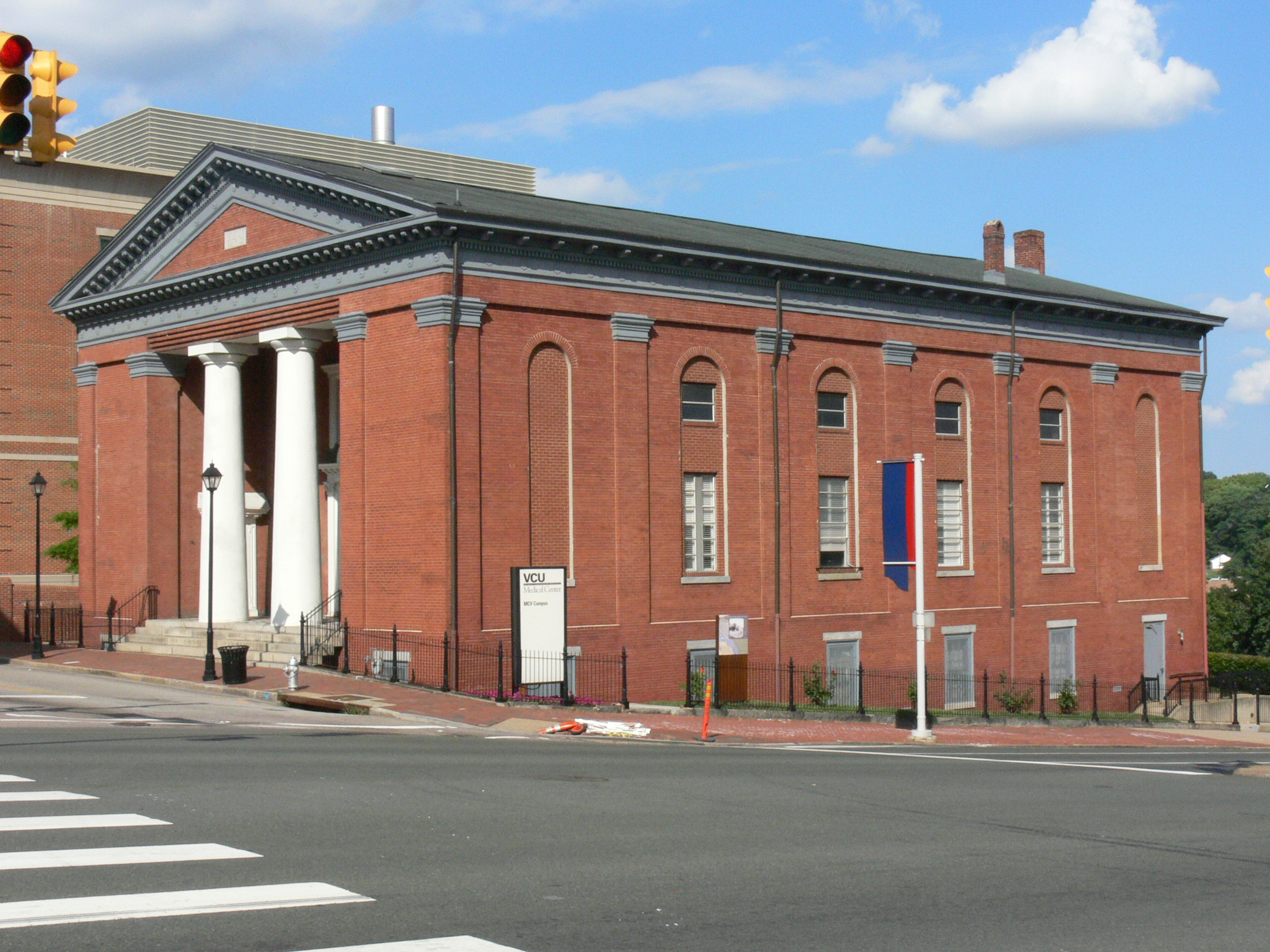 The old First African Baptist Church in Richmond, Virginia; on the National Register of Historic Places. The church building is now a property of VCU Medical Center, Medical College of Virginia.